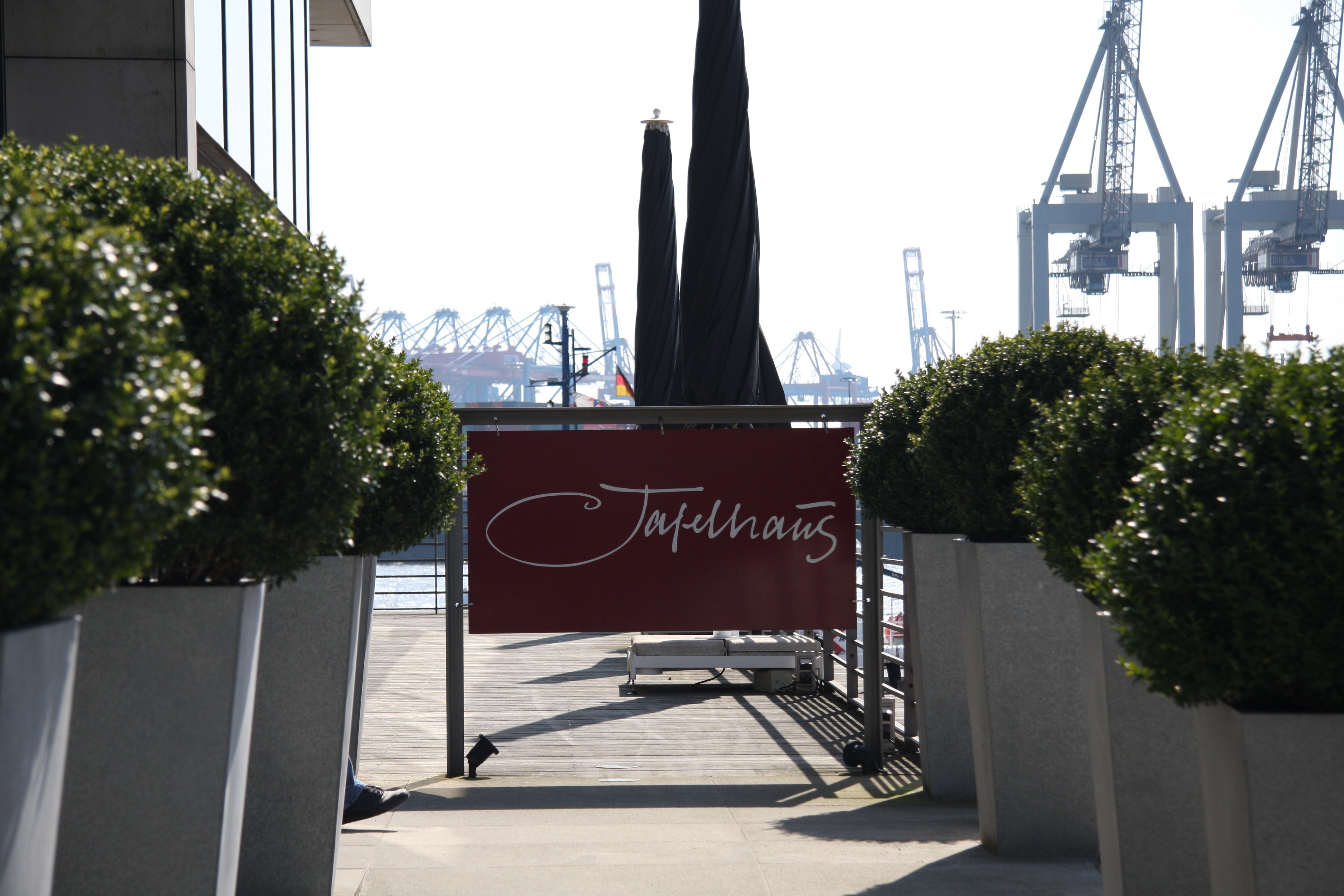 The former Restaurant Tafelhaus in Hamburg, run by TV-chef Christian Rach